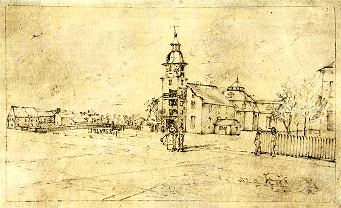 Both Churches in New Harmony May 1826. Sketch by Charles Alexandre Lesueur.